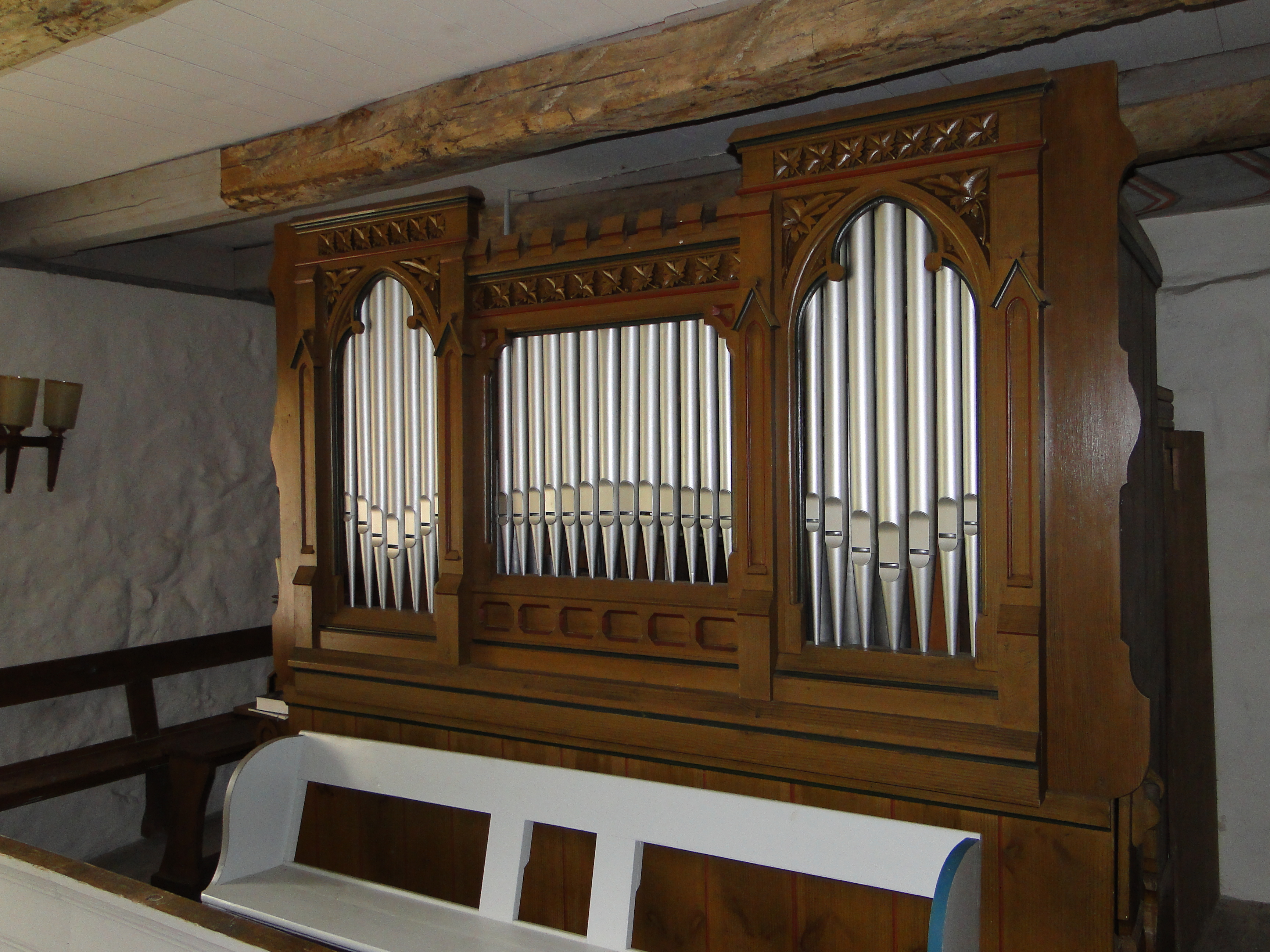 Church in Techentin, district Ludwigslust-Parchim, Mecklenburg-Vorpommern, Germany